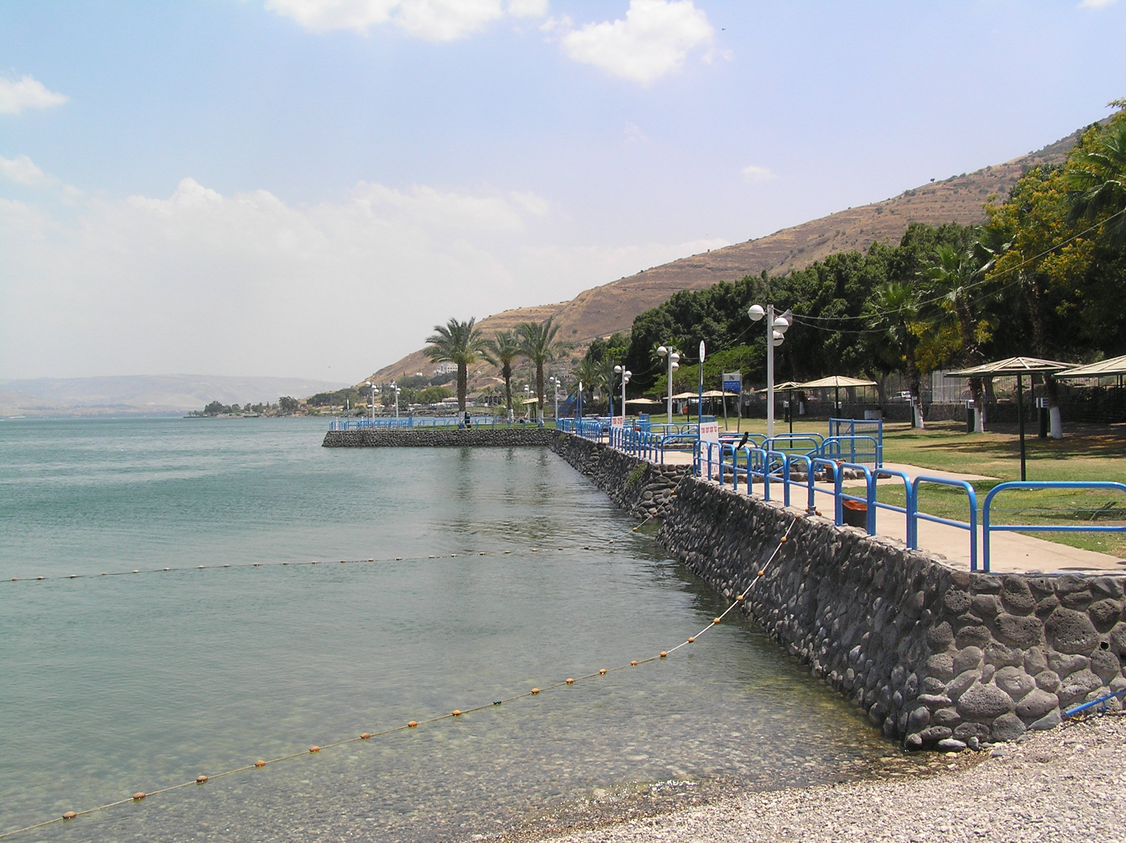 Ganim Municipal beach Tiberias חוף עירוני גנים, טבריה